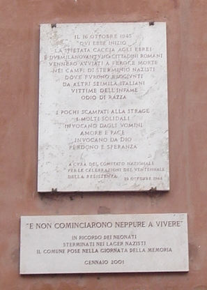 World war II Memorial commemorates the Nazis deporting the Jews of Rome 16 October 1943